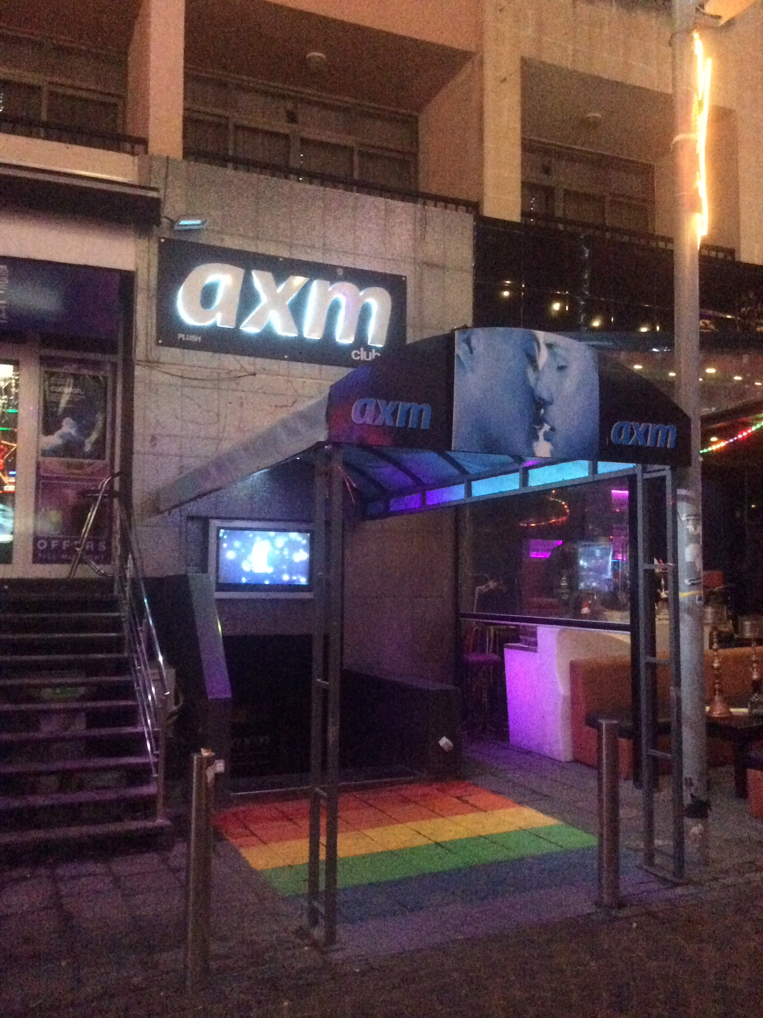 LGBT bar in Malta, Pacevile